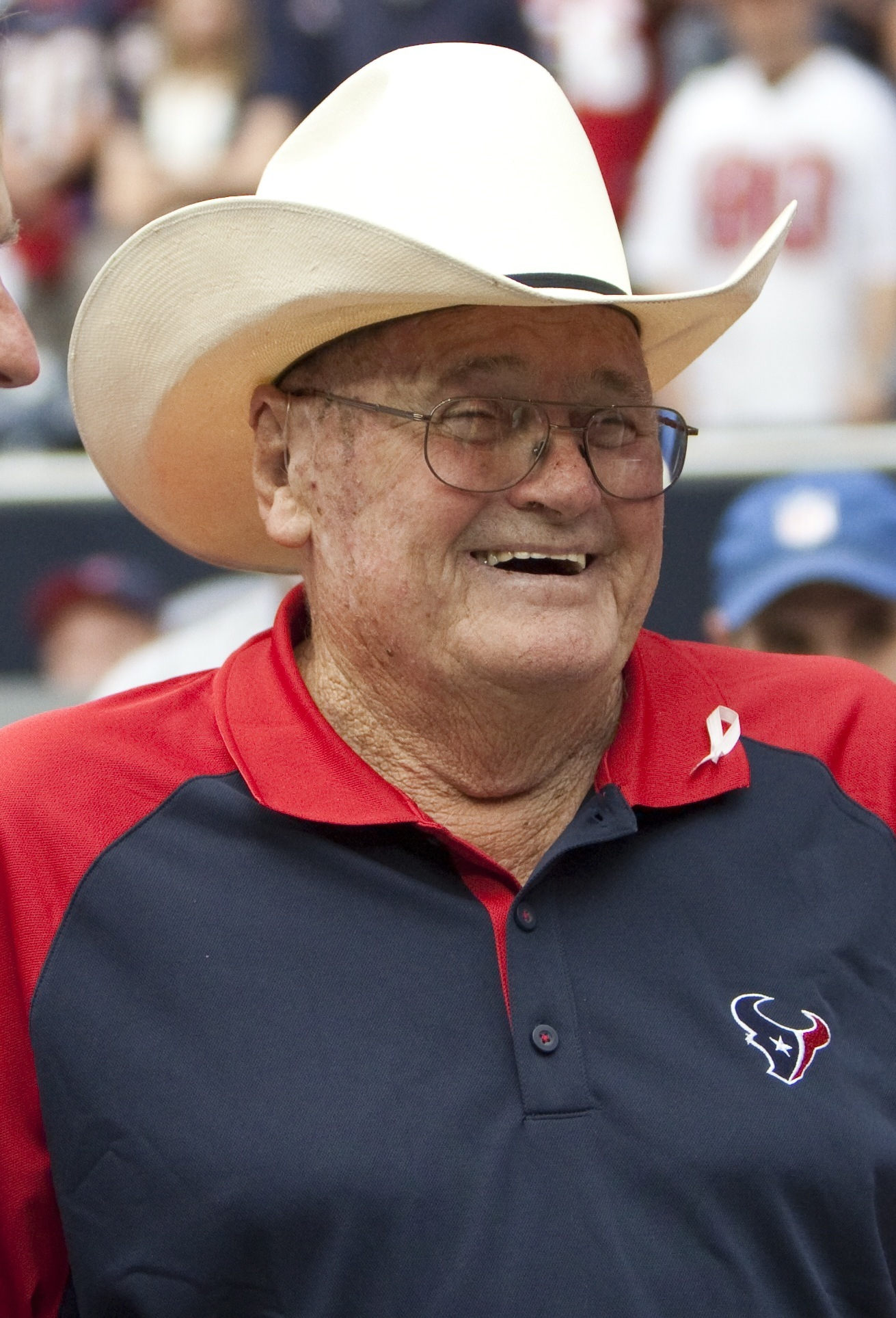 Bum Philips laughs with President George H. W. Bush on the sideline. Houston Texans Vs. New York Giants Reliant Stadium. Houston, Tx. Oct. 10, 2010. This file has been extracted from another file: President George Bush with Bum Philips.jpg